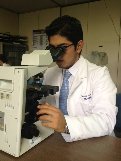 A medical student from Escuela de Medicina Ignacio A. Santos of Tecnológico de Monterrey, Campus Ciudad de México explores a histological sample at Instituto Nacional de Cardiología "Ignacio A. Chávez".